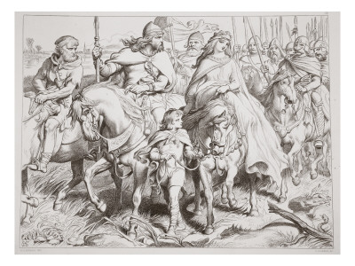 Herward the Wake with his second wife Alfruda